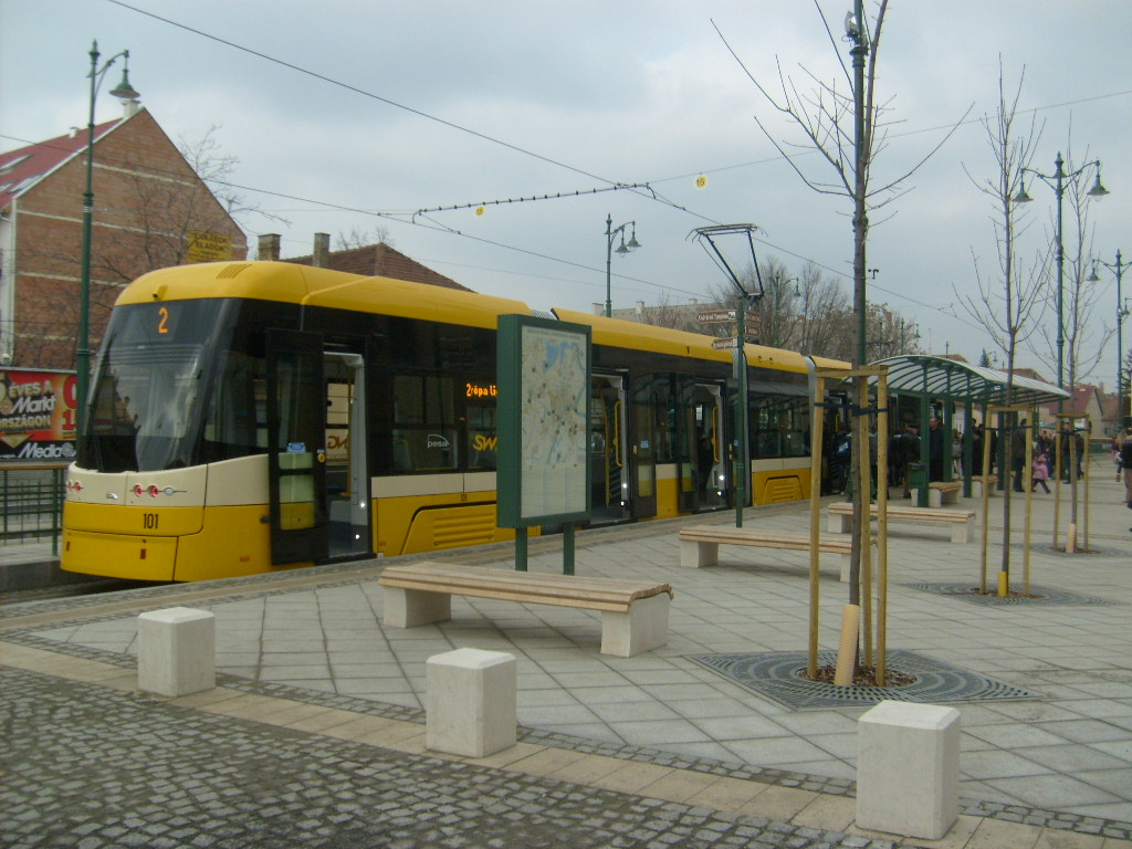 PESA 120Nb type tram